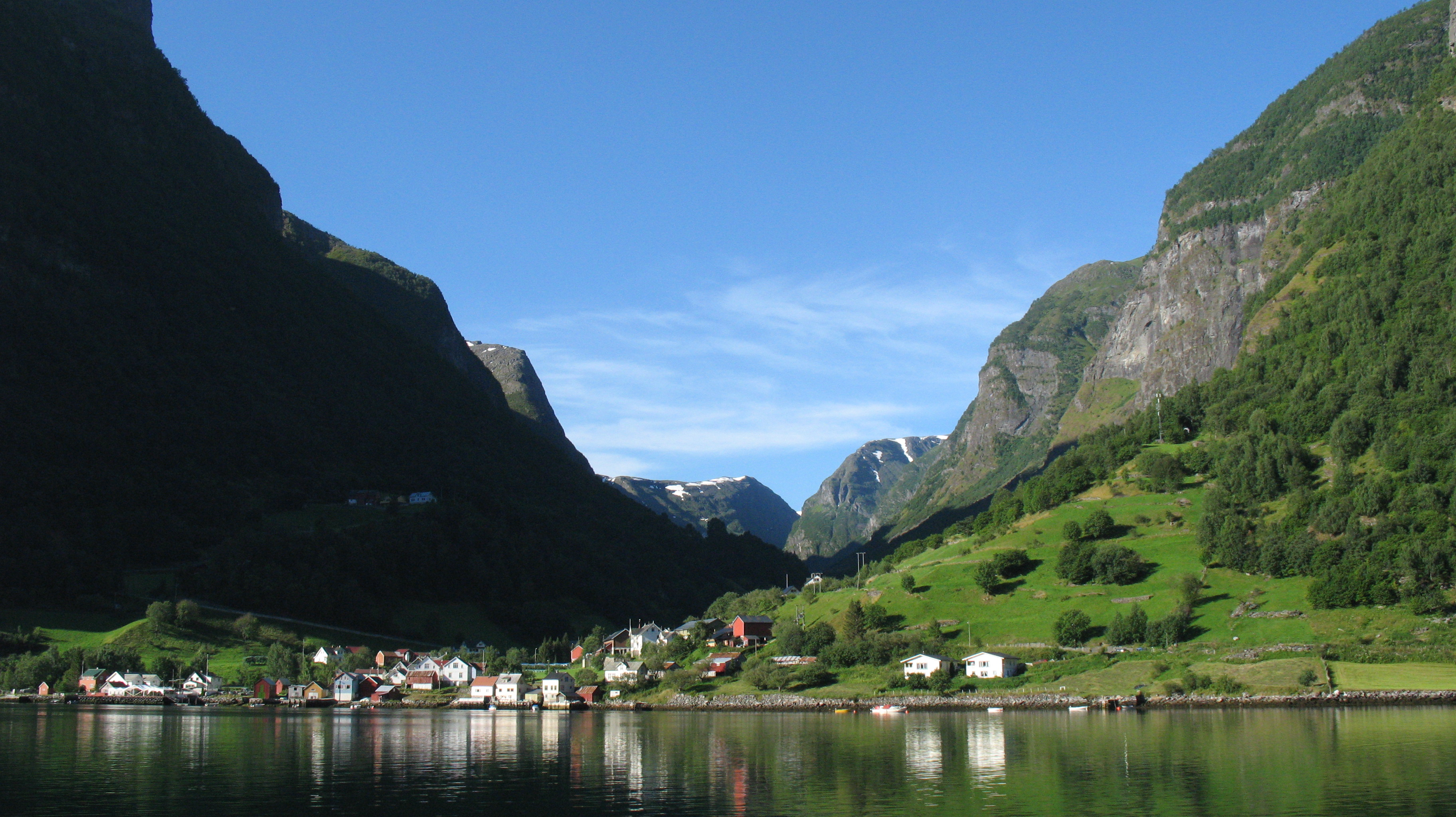 Undredal - settlement near Flam, Norway.